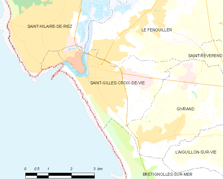 Map of French municipality Saint-Gilles-Croix-de-Vie